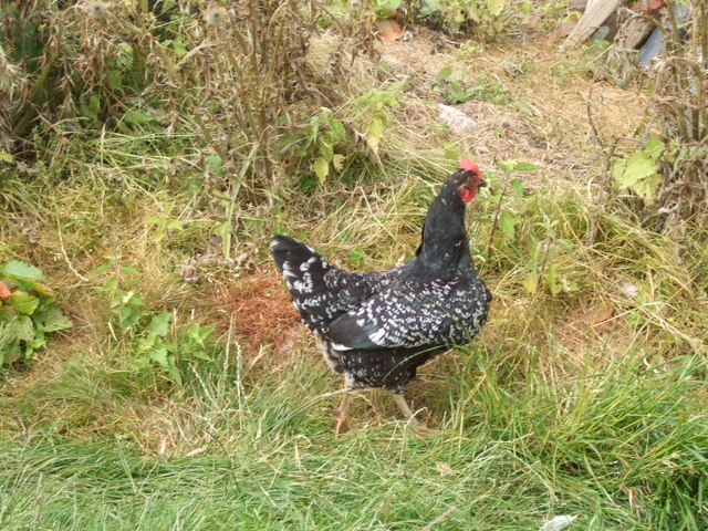 Free range hen at Glencat Italian 'Ancona' breed?